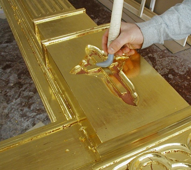 Burnishing